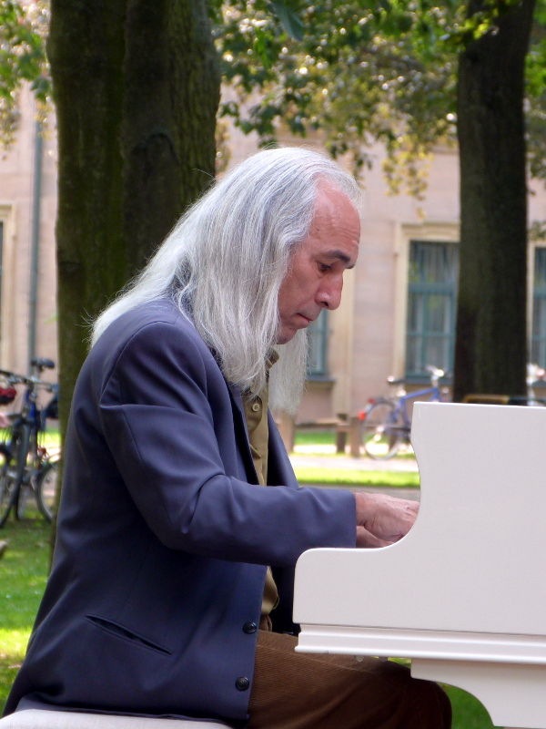 Jazz musician Klaus Treuheit playing the piano at the Erlanger Poetenfest 2013.